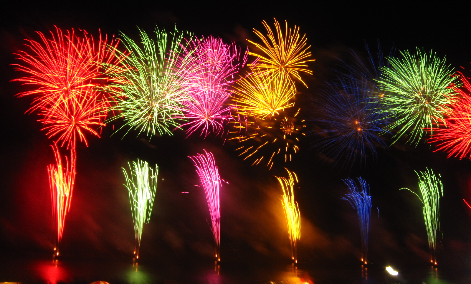 352nd Chikugo river Fireworks Festival which is held on 5th, Aug. 2011(Kurume, Fukuoka, Japan).